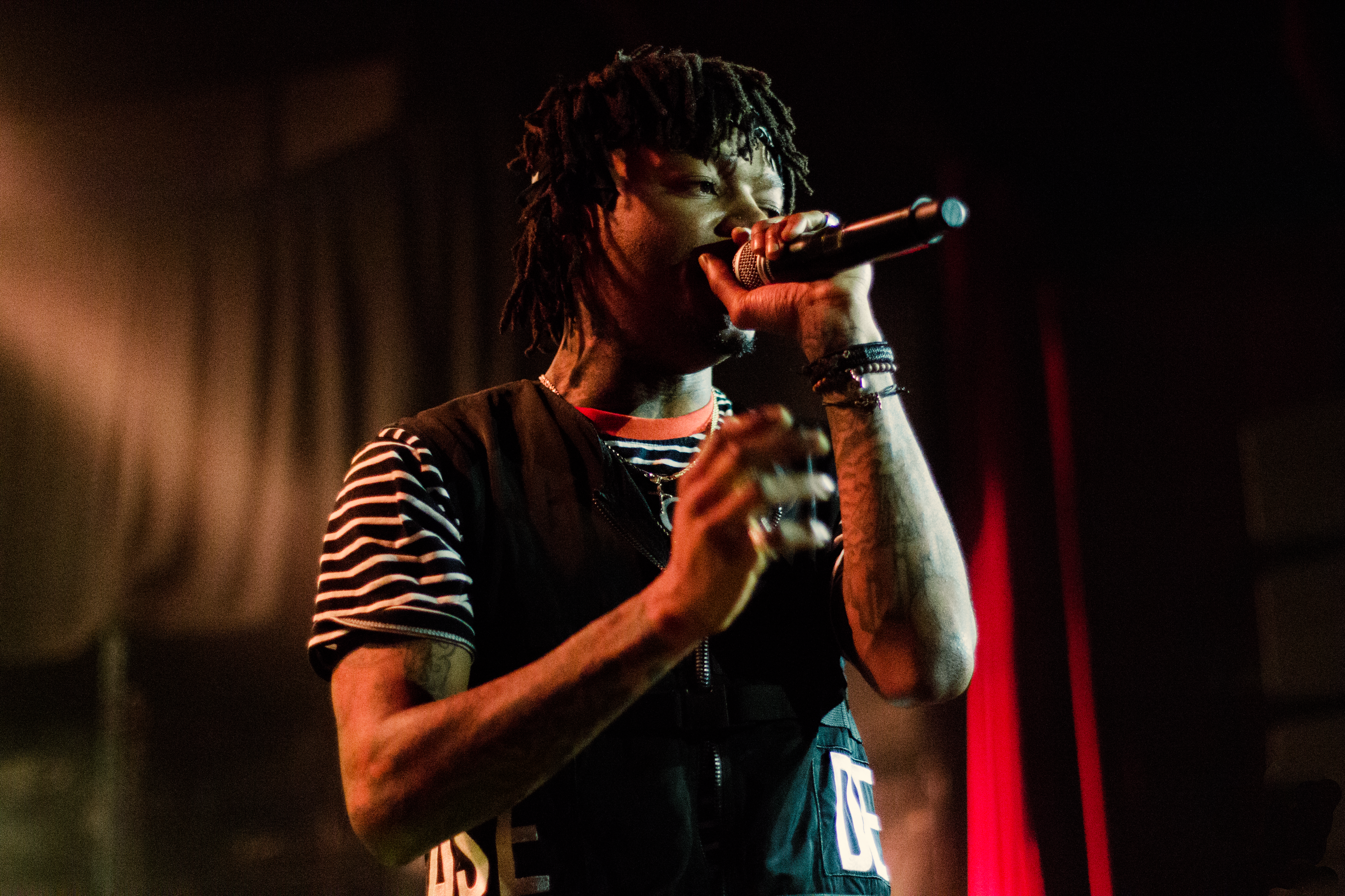 Goldlink live with support from J.I.D Shot at the Mod Club December 29th, 2017 Shot by Mac Downey (mac.all.mighty)